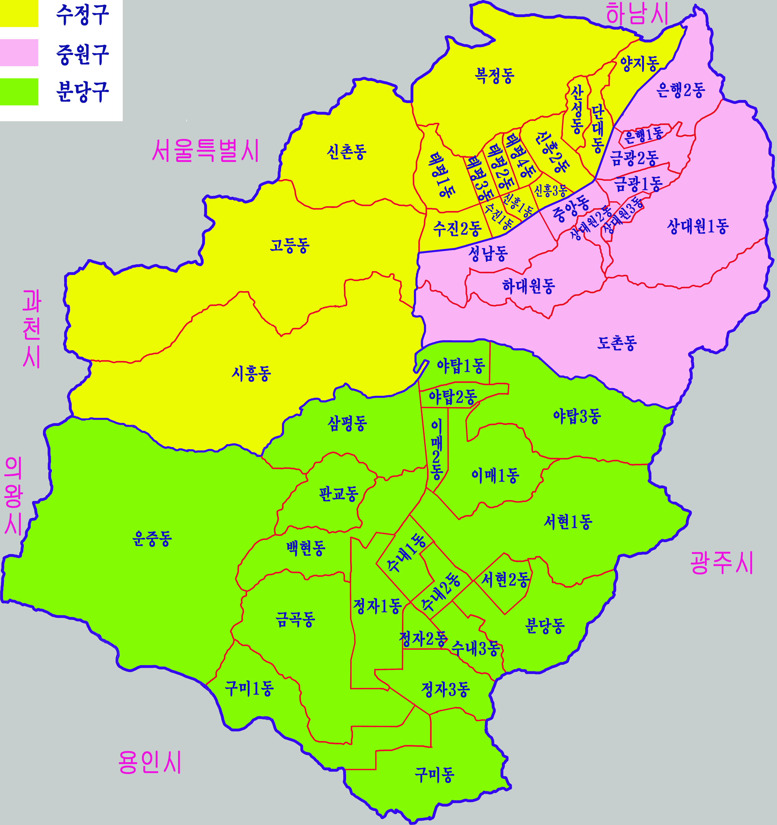 Map of the city of Seongnam, Gyeonggi Province, Republic of Korea